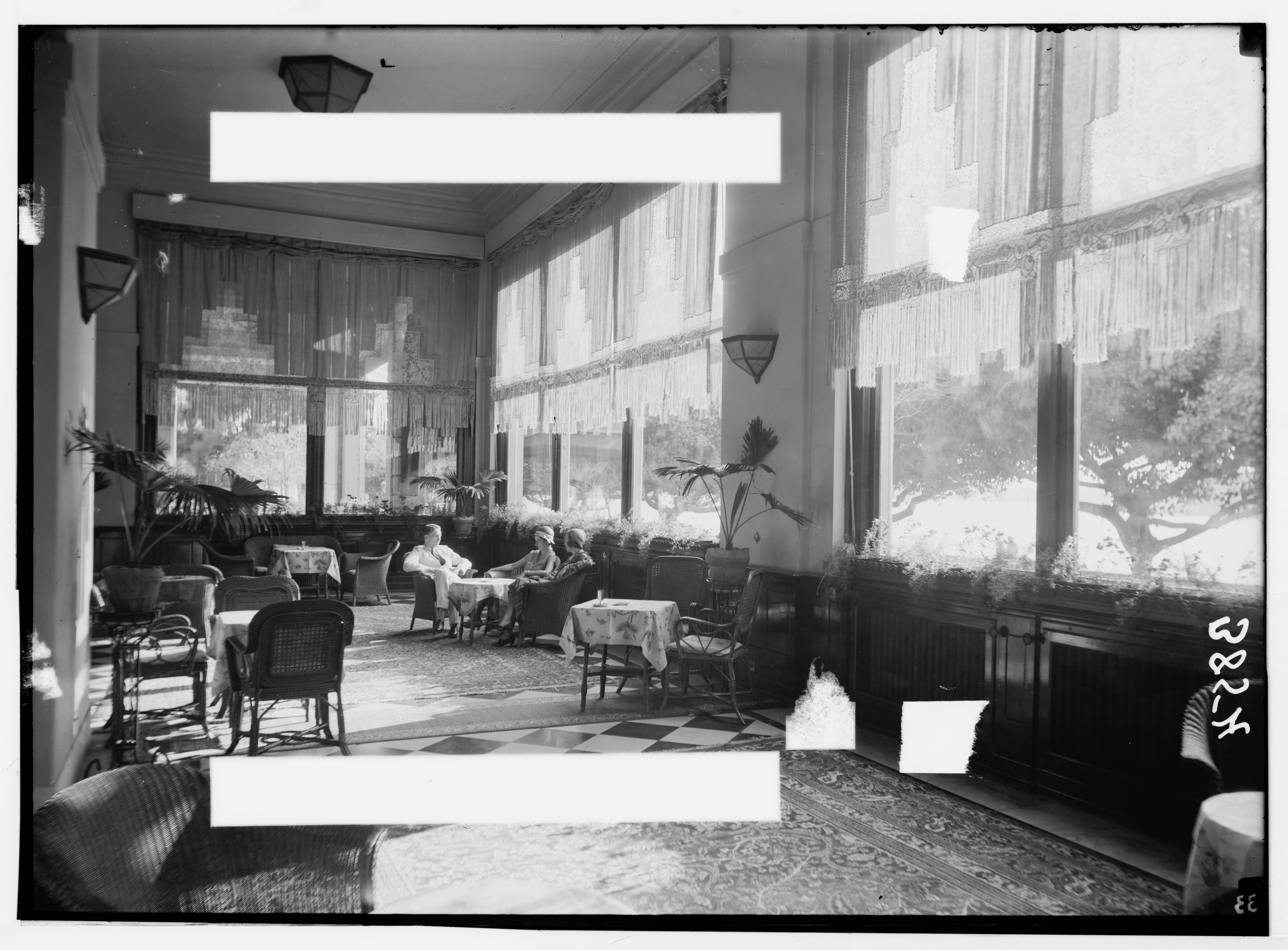 Title: Egyptian hotels Ltd., Cairo. Semiramis Hotel, interior. The main lounge Abstract/medium: G. Eric and Edith Matson Photograph Collection Physical description: 1 negative